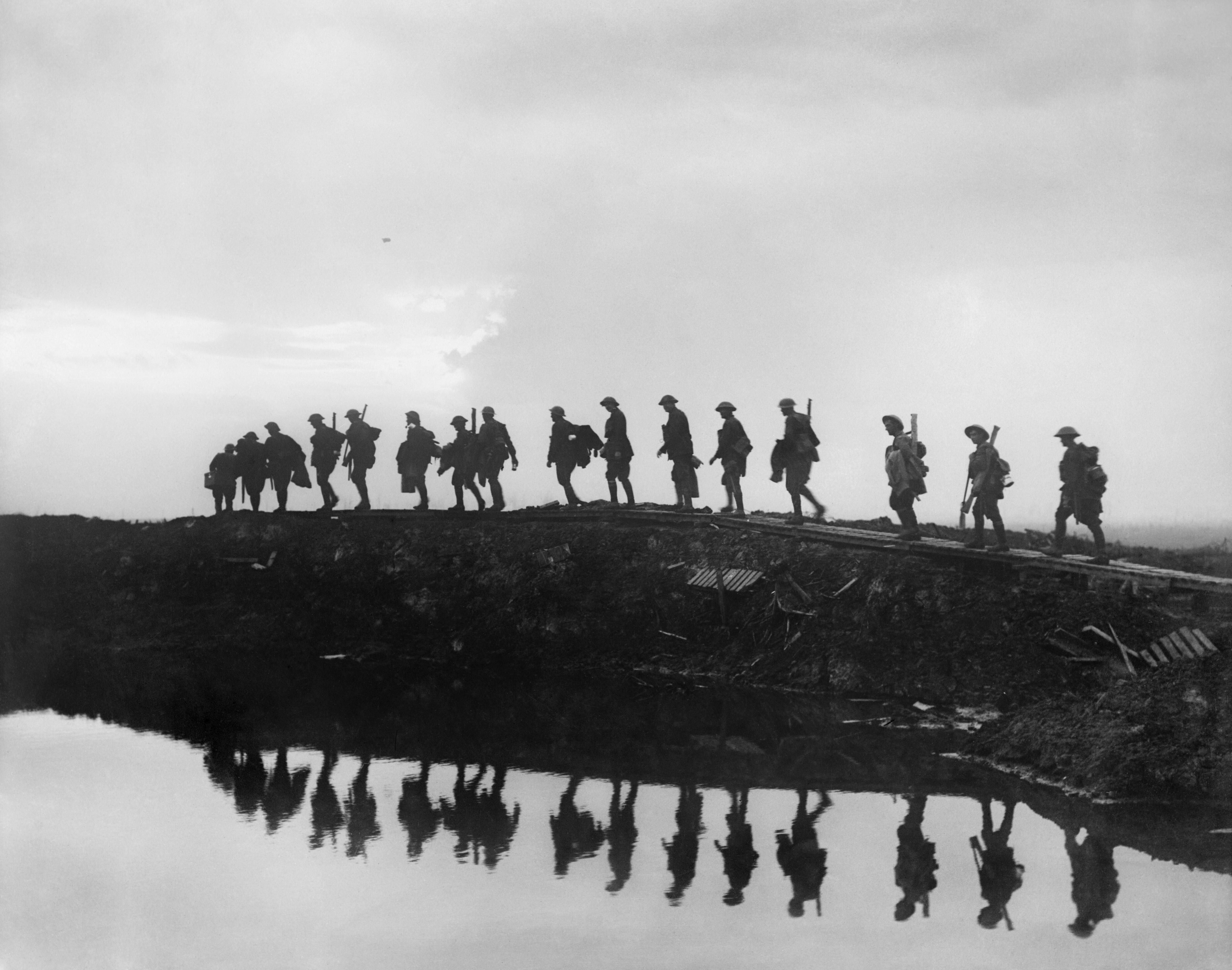 Supporting troops of the 1st Australian Division walking on a duckboard track near Hooge, in the Ypres Sector. As they passed toward the front line to relieve their comrades, whose attack the day before won Broodseinde Ridge and deepened the Australian advance. They are relievieng troops who had taken part in the Battle of Broodseinde.